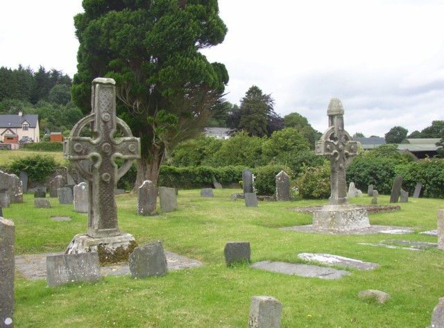 Ahenny high crosses, Co. Tipperary. Two elaborately carved crosses in excellent condition.